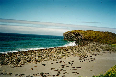 Fur Seal Colony (Callorhinus ursinus) Bogoslof Island